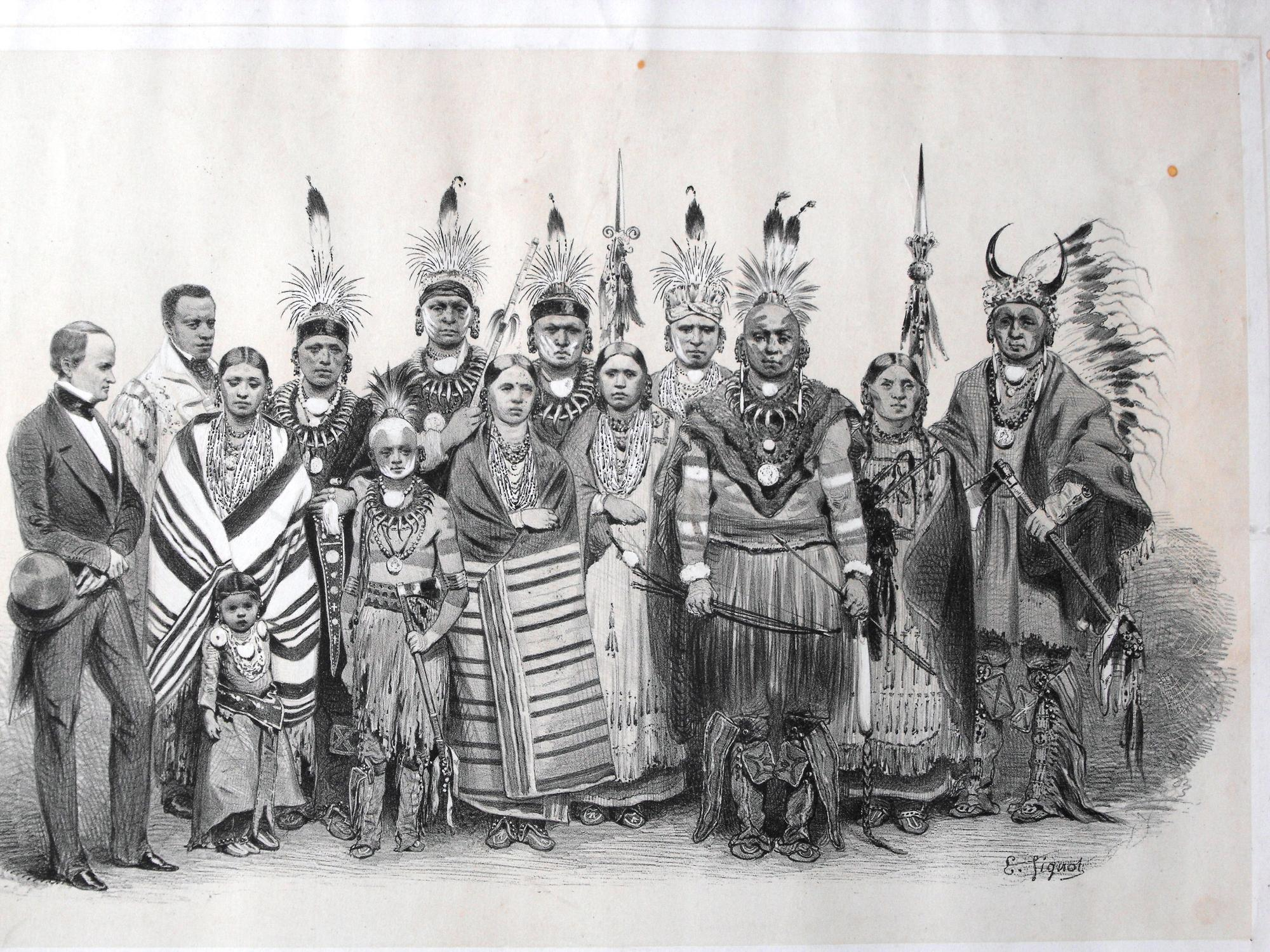 George Catlin's 1844 drawing of Ioway Indians during a European tour.